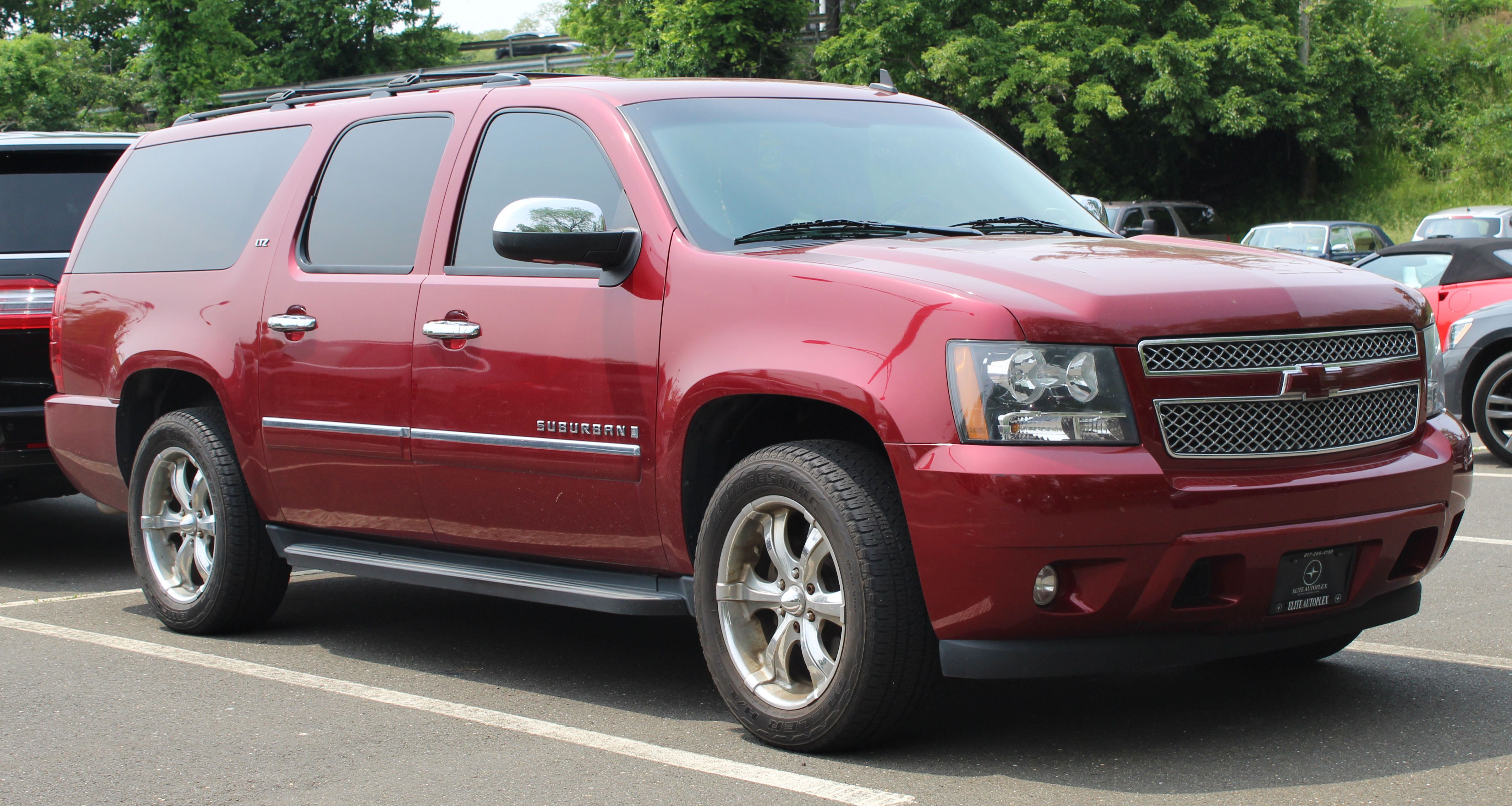 A 2007 Chevrolet Suburban LTZ photographed in Greenwich Concours d'Elégance Hagerty parking lot, Connecticut, USA